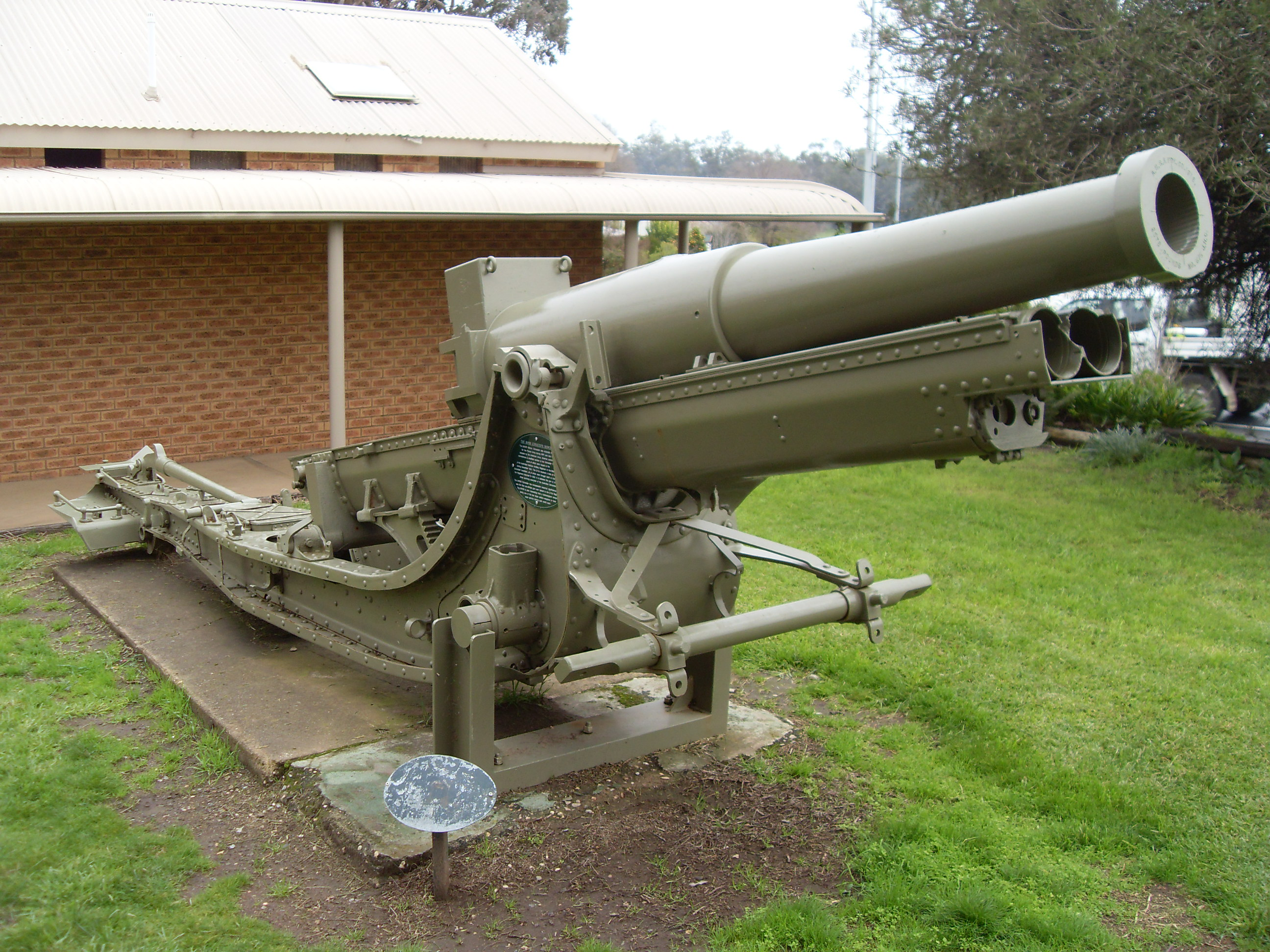 M1918 (US-produced) version of Canon de 155 C modèle 1917 Schneider; marked on barrel-end "A.B.S. & FDY CO.1918" "2678 POUNDS NO. 675 J.H.C.". Mounted at the memorial park, Tarcutta, Australia. A plaque says this is one of 18 guns transferred to the 2/1st Australian Medium Artillery Regiment in North Africa in December 1941. This gun has been 'spiked' by an explosive charge that entered the barrel from the top, just ahead of the pivot: Close examination of the picture will reveal a bulge at the top, and the cracked and bulged metal below the barrel.